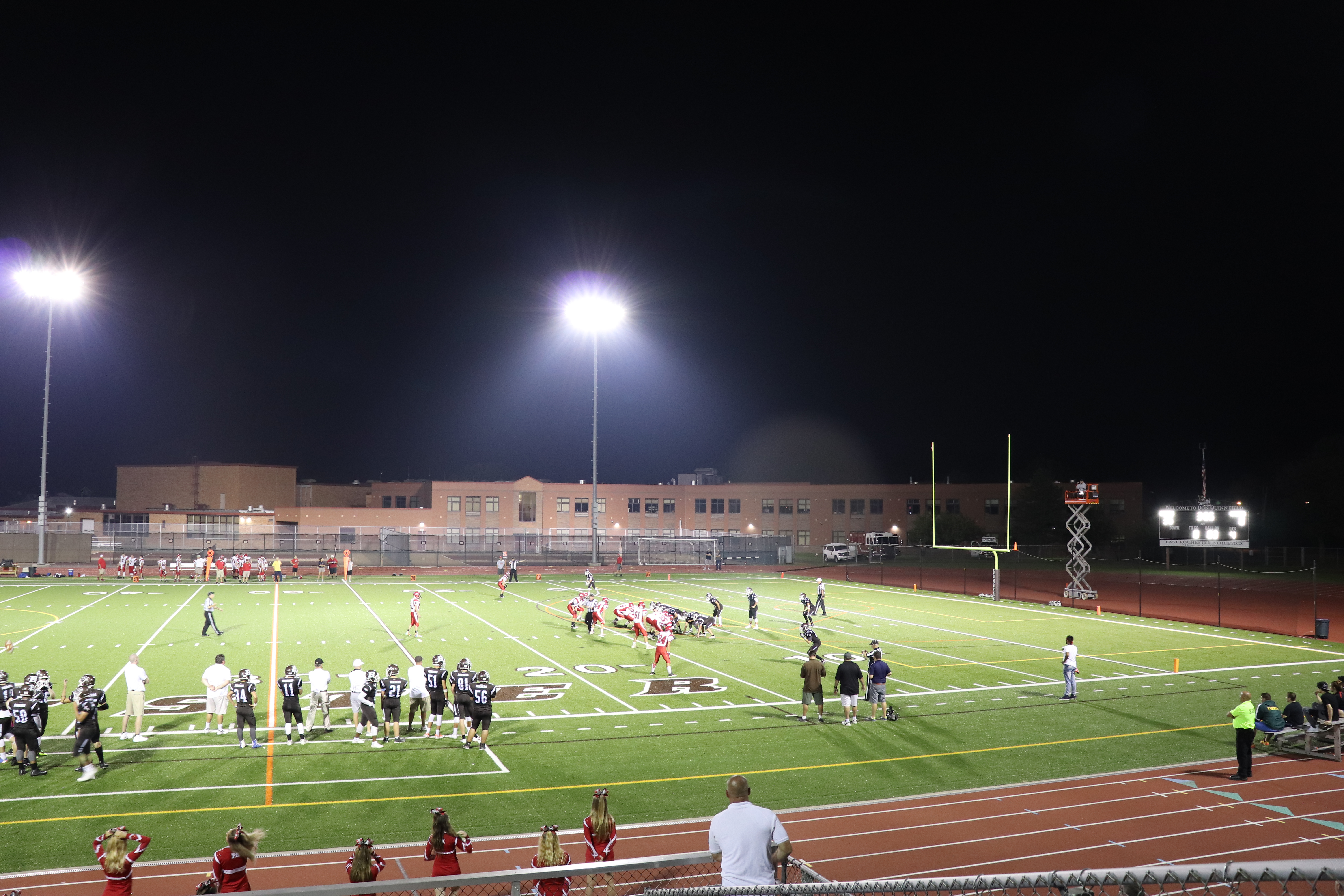 The East Rochester/Gananda Bombers face off against the Palmyra-Macedon High School Red Raiders at East Rochester Junior-Senior High School